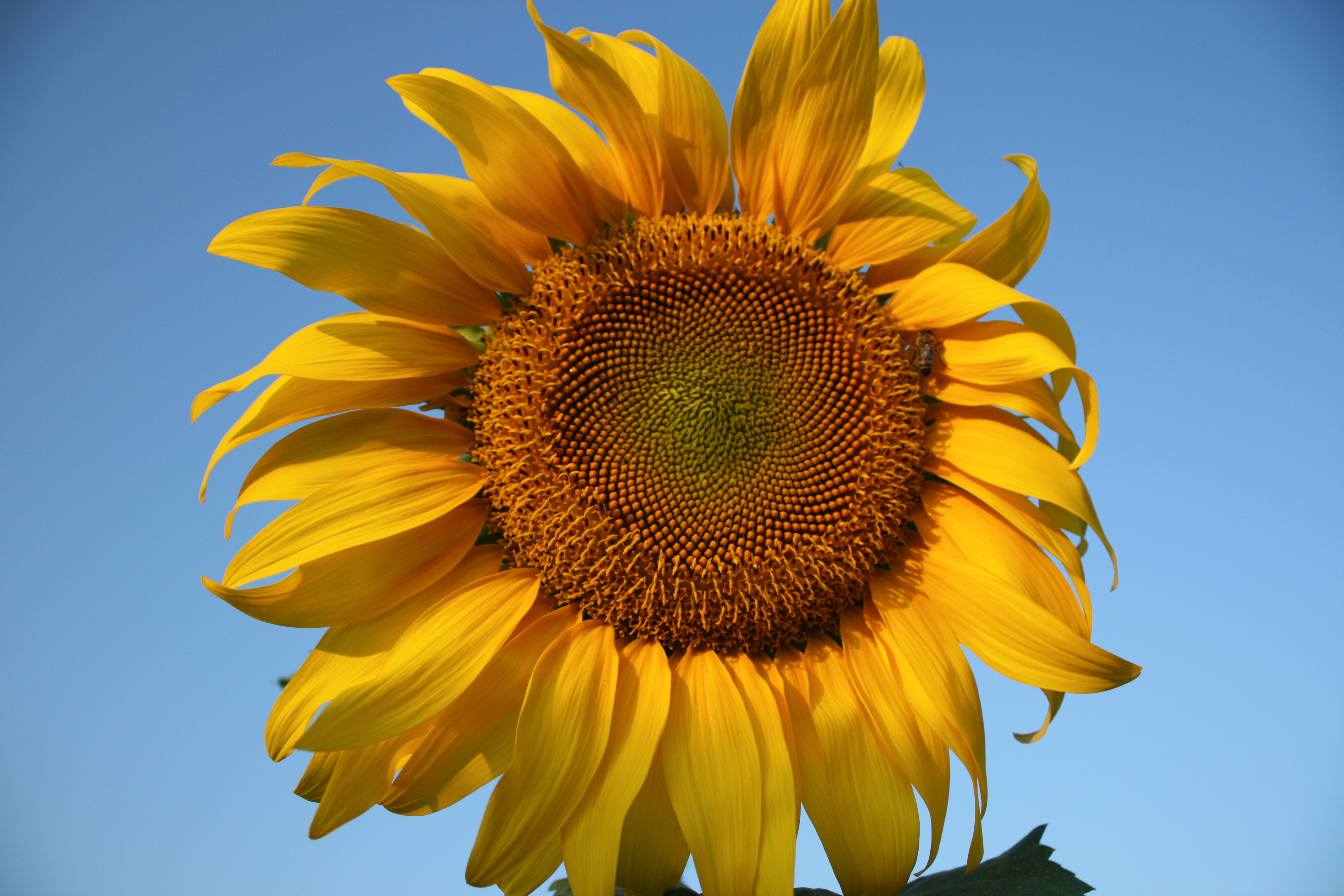 A bee sit on the sunflower, collect honey.